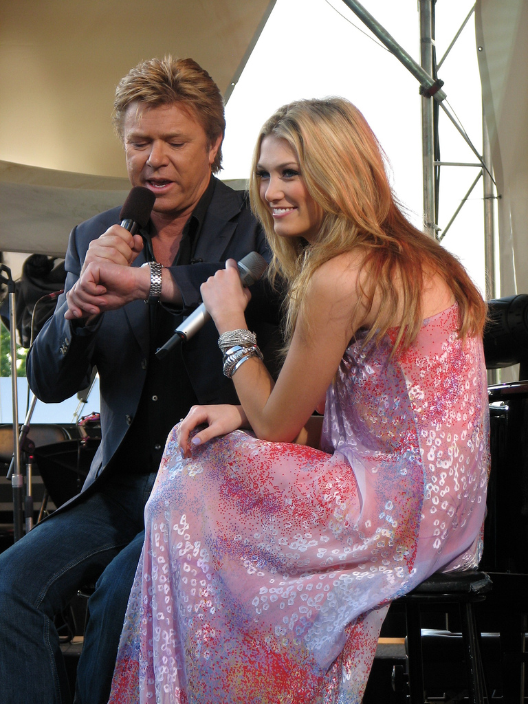 Delta Goodrem | Fed Square, Melbourne | 27th November 2007